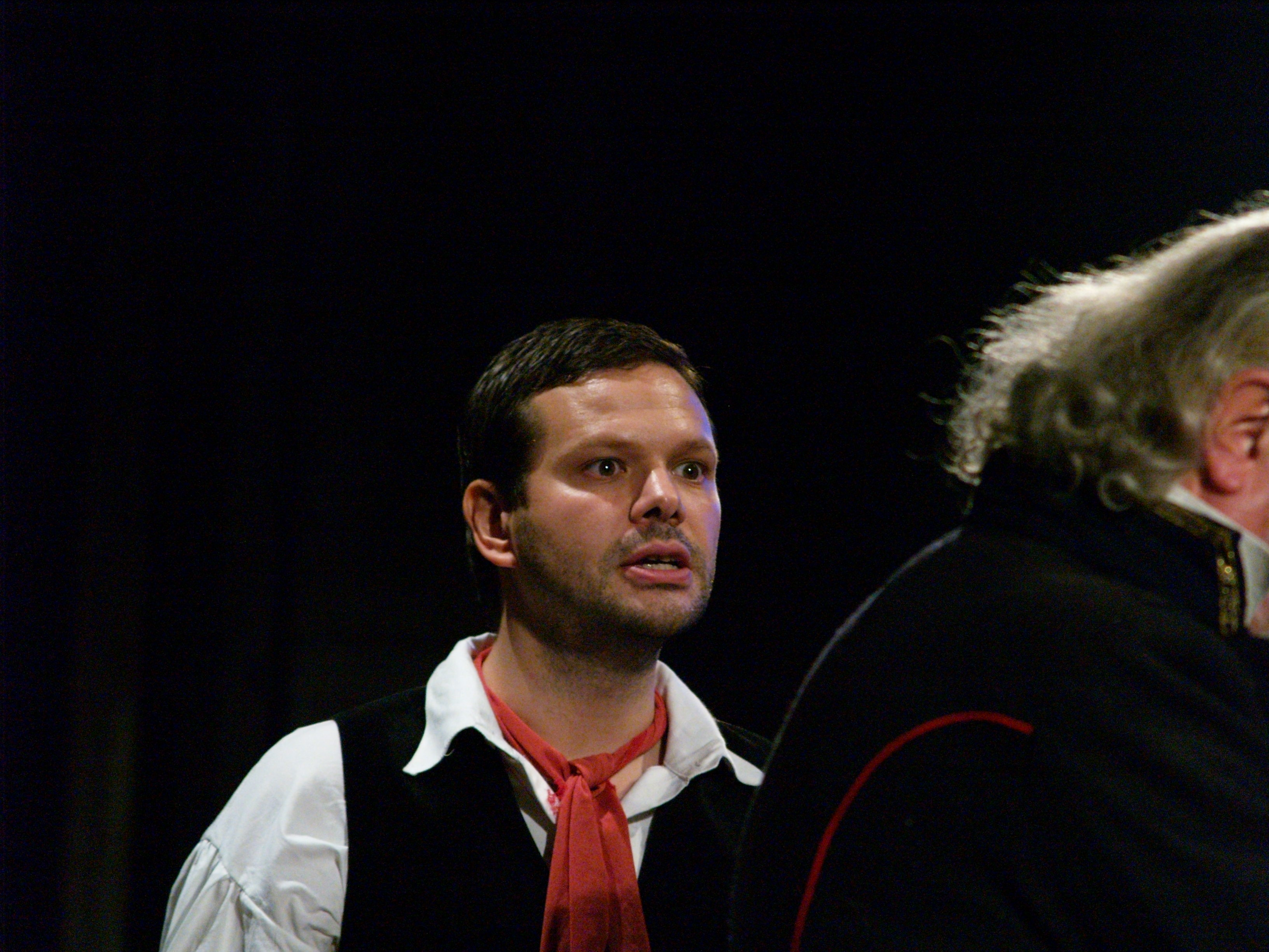 Vladimir Andrić (bariton)